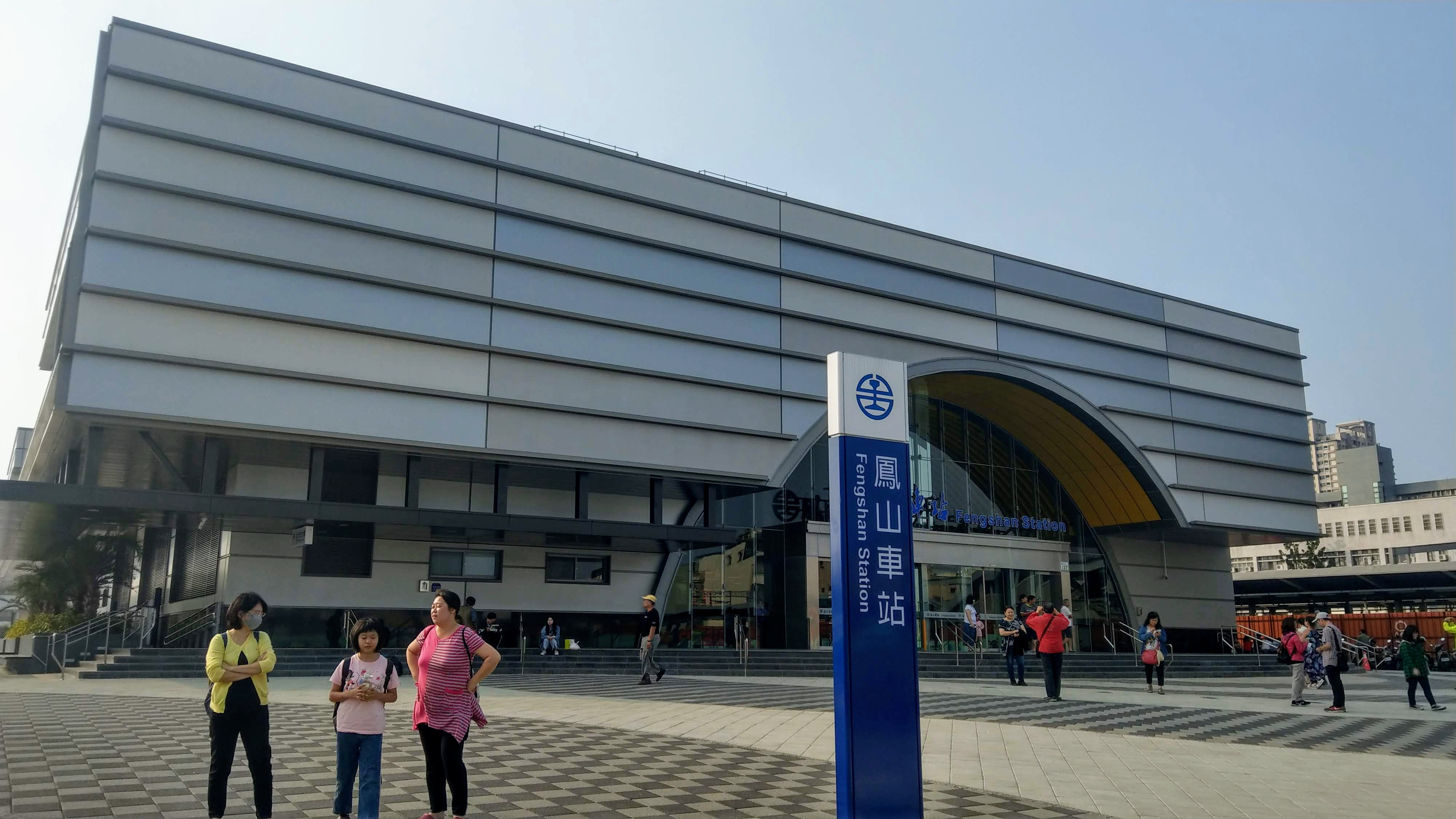 Fengshan Station